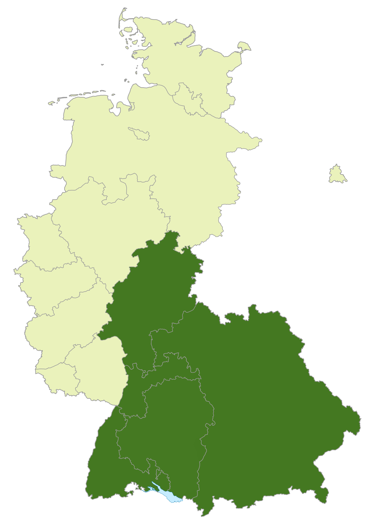 Germany's Regional Soccer Association of Süddeutschland,1950-1990